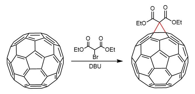 Bingel Model Reaction